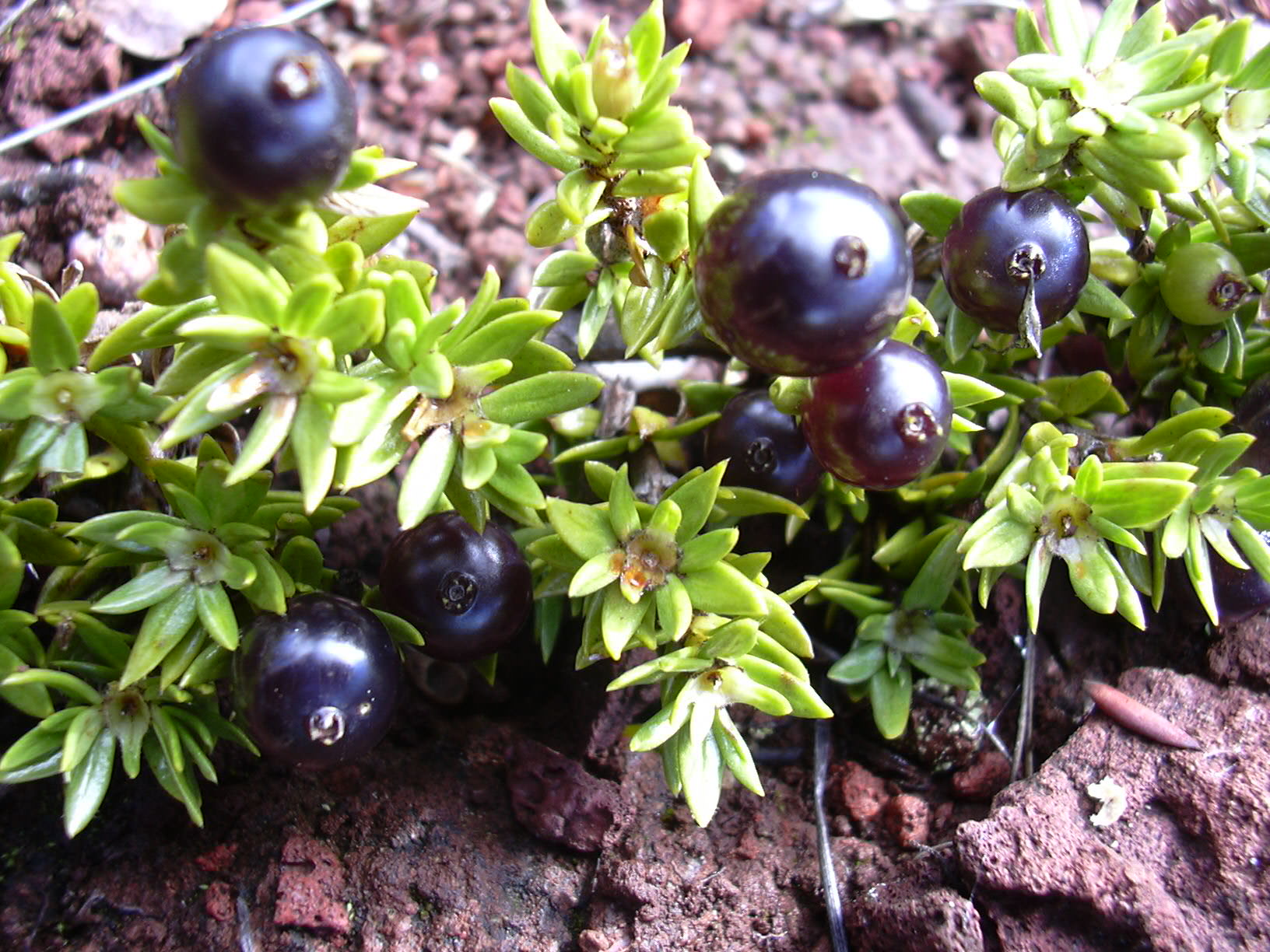 Coprosma ernodeoides (fruit). Location: Maui, Puu Nianiau